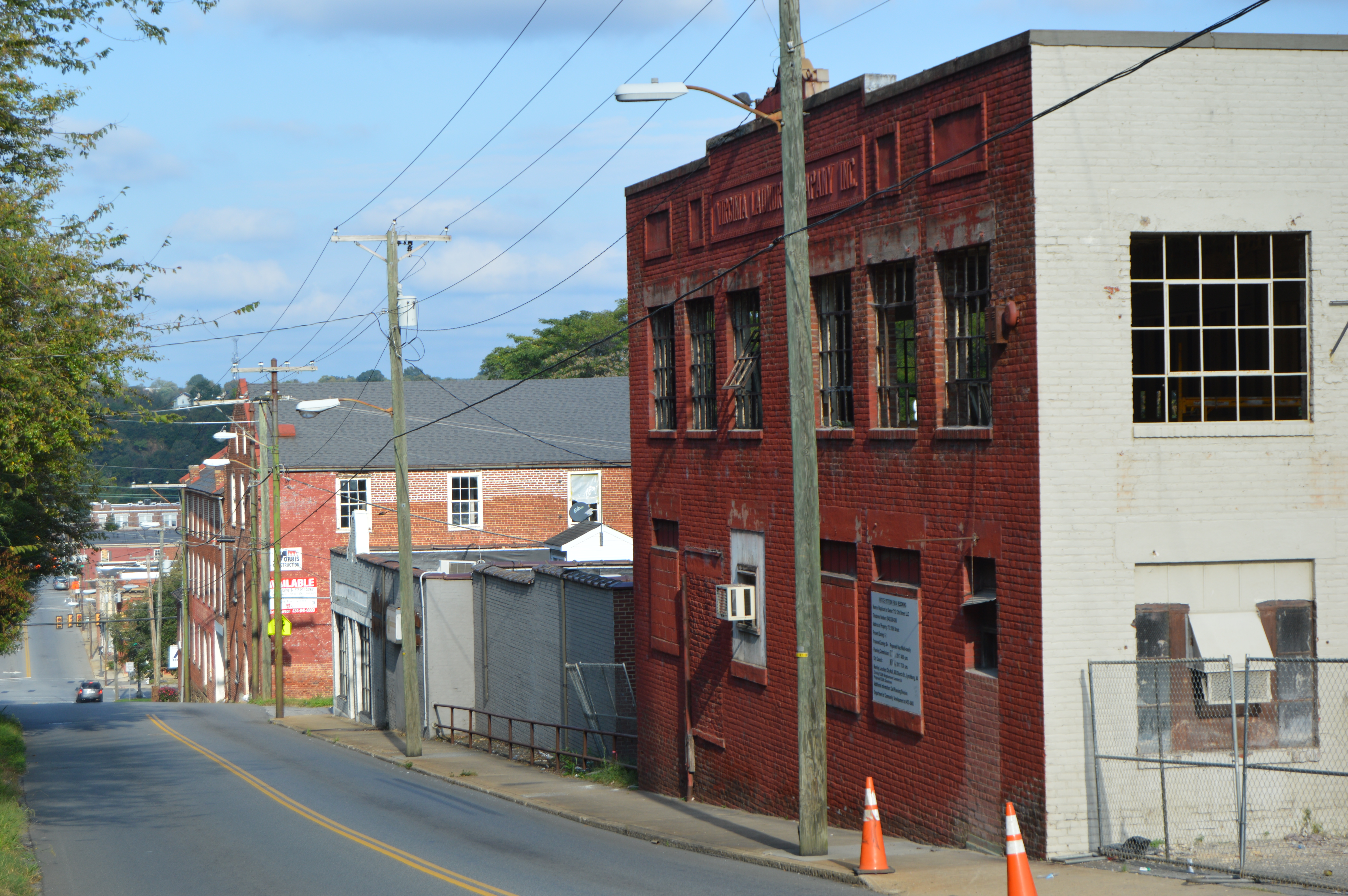 Industrial buildings on the southern side of Twelfth Street, seen looking east from the Federal Street intersection, in Lynchburg, Virginia, United States. This block is part of the Twelfth Street Industrial Historic District, a historic district that is listed on the National Register of Historic Places.